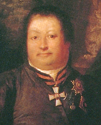 Hercules Morkov